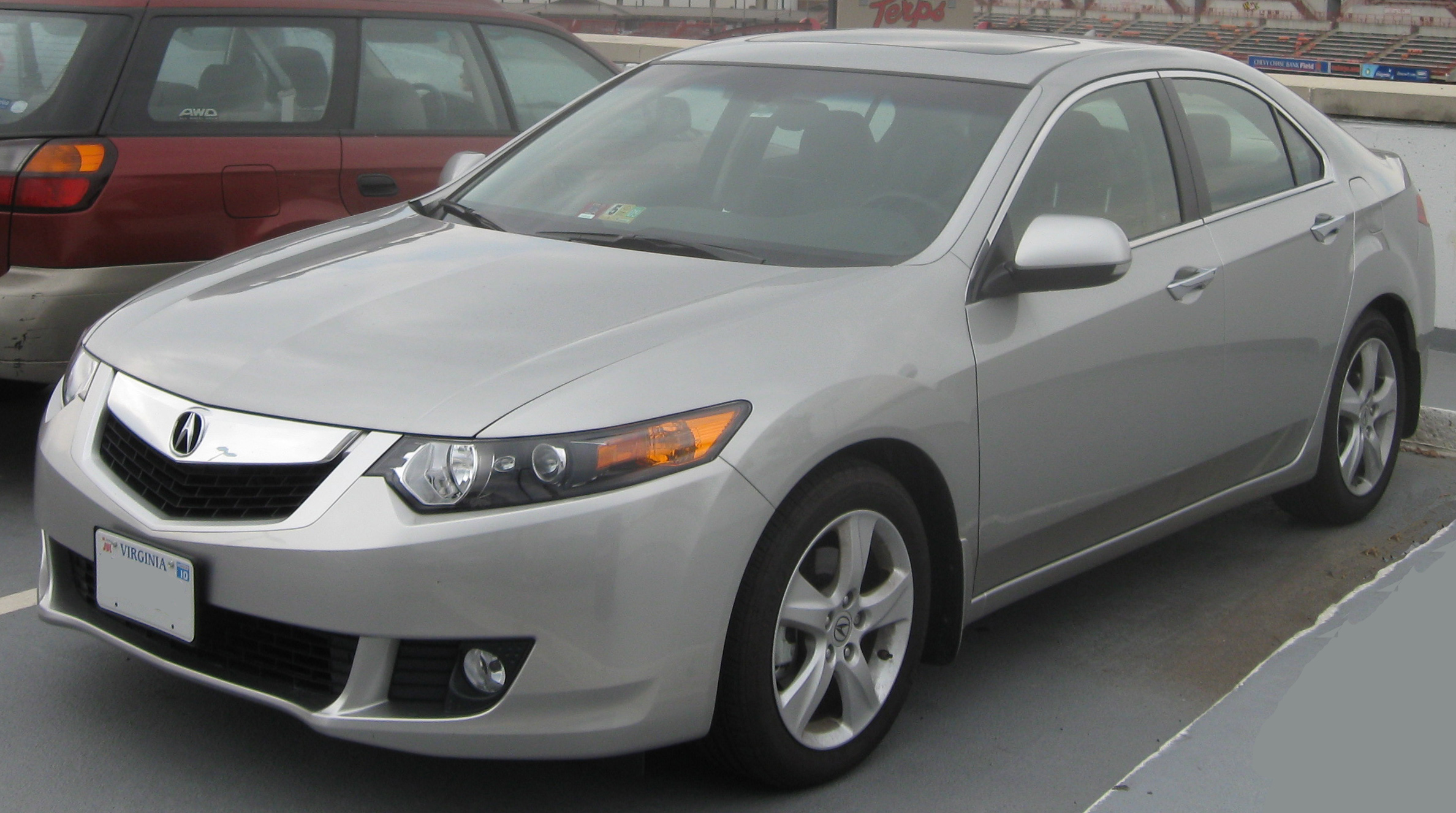 2009 Acura TSX photographed in College Park, Maryland, USA.